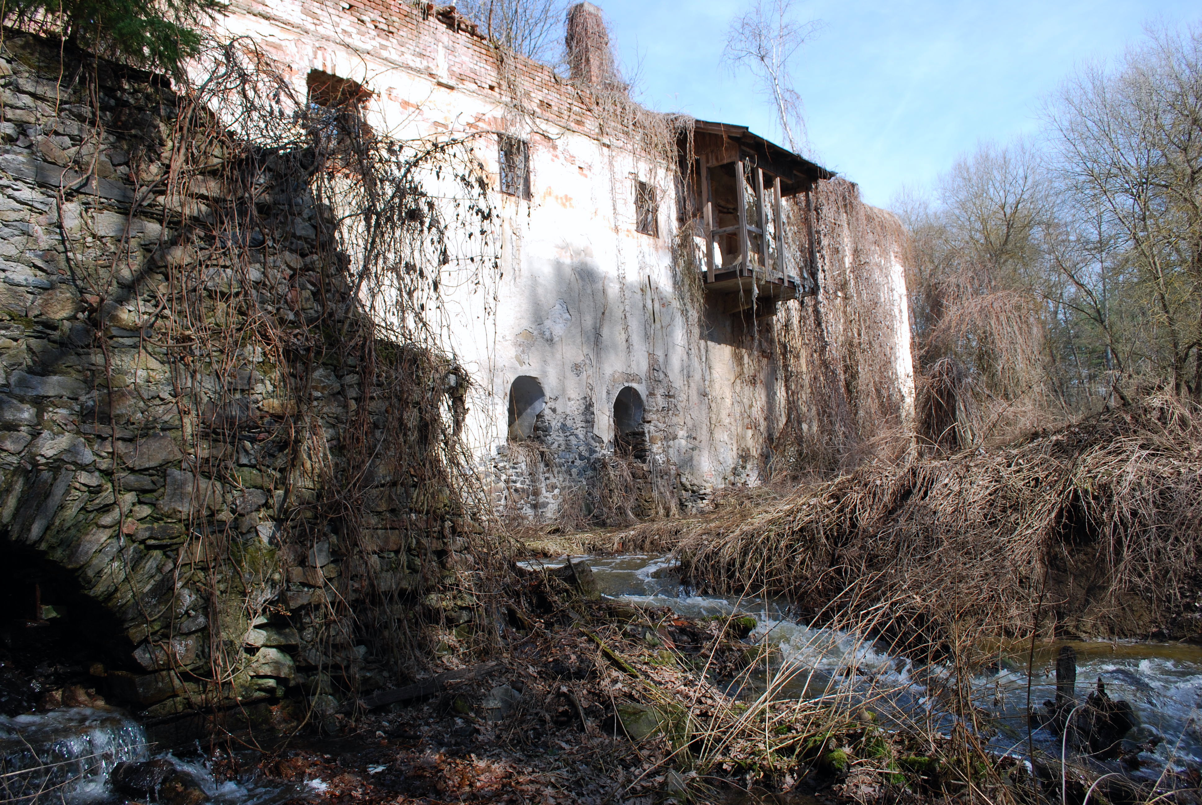 Canal Zlatá stoka in Třeboňsko area, Czech Republic. This photograph was taken within the scope of the 'Czech Municipalities Photographs' grant. - Google Maps - Google Earth